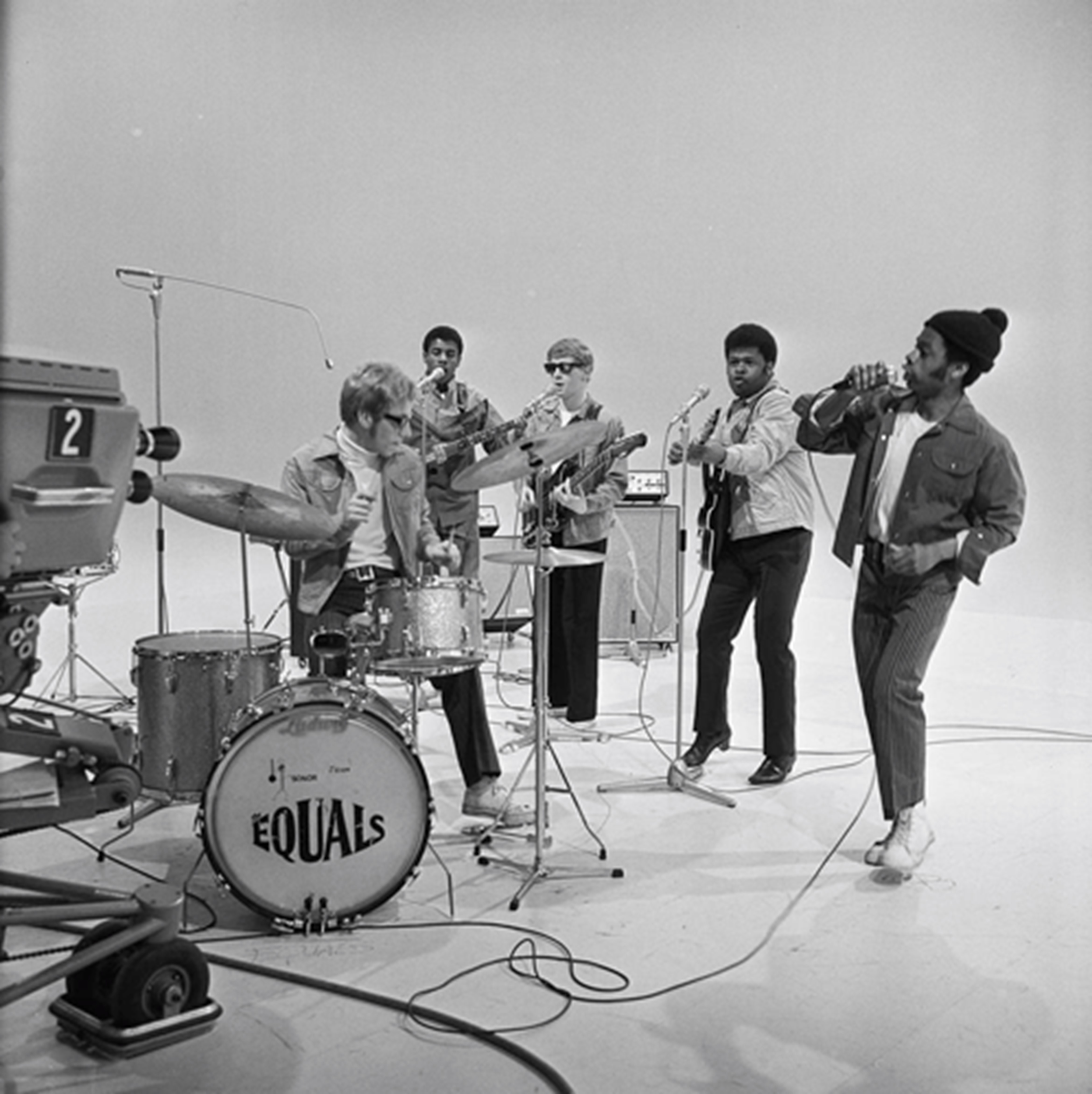 The Equals singing Hold me closer and I won't be there during recordings of the Dutch TV programme Fanclub, 27 May 1967